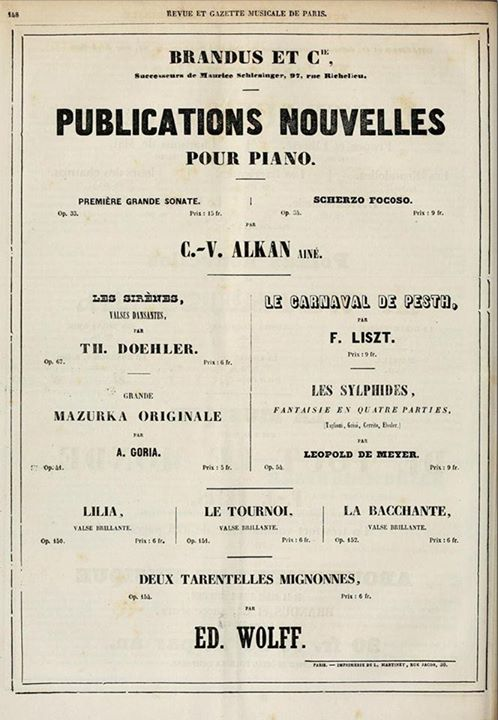 First featured advertisement of Alkan's Grande Sonate Op.33 in the 'Revue et Gazette Musical de Paris', 7 May 1848.